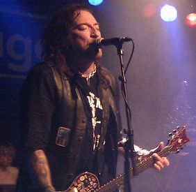 Ginger (ex-Wildhearts) playing on stage at the Glasgow Garage.